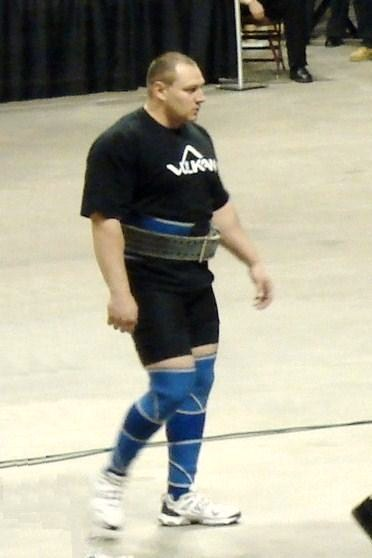 Jessen Paulin (a strength athlete from Canada).